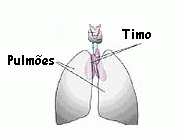 Localization of the thymus organ in a human body. In Portuguese. Work by Leandro Martinez.